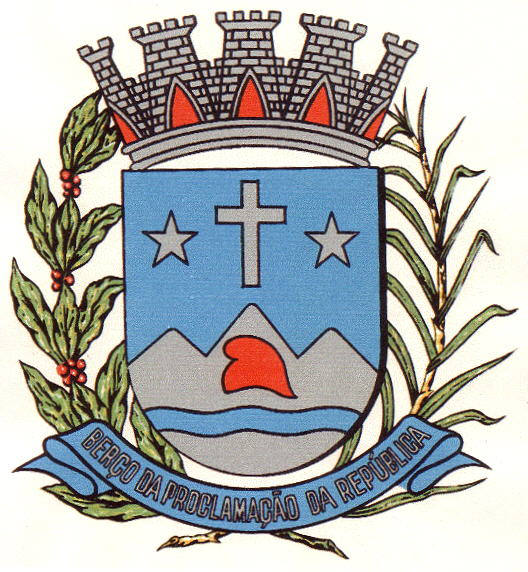 Coat of Arms of the city of São Simão, São Paulo state, Brazil. From the municipal website. Emerson